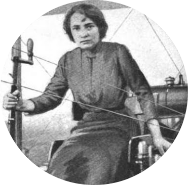 Suzanne Bernard pilot died March 1912. Here reported in May 1912 in Popular Mechaics